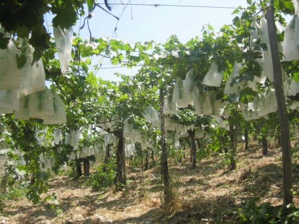 organic grape